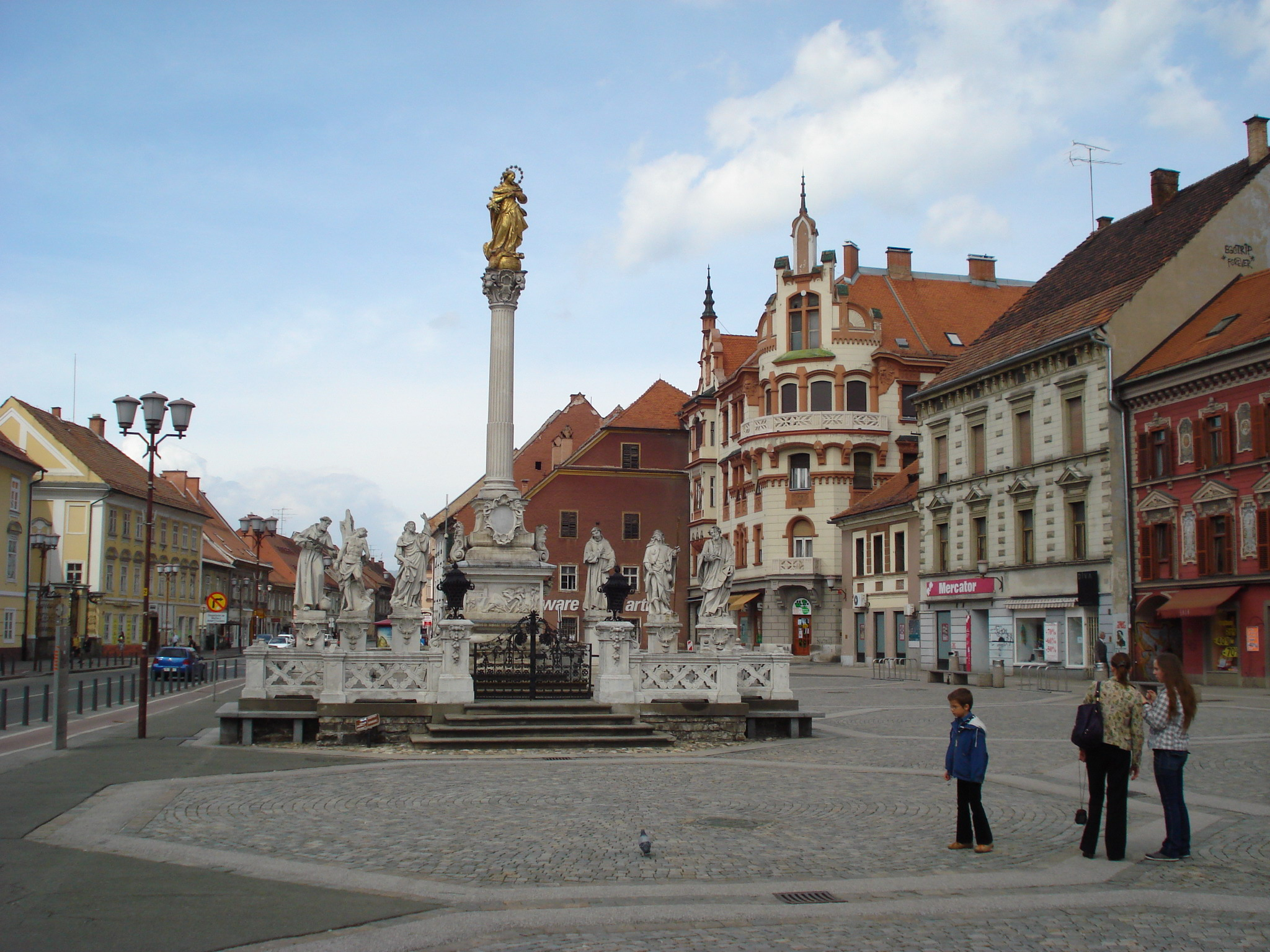 The Town of Maribor, Slovenia - Glavni trg (Main Square), Column to Victims of Plague